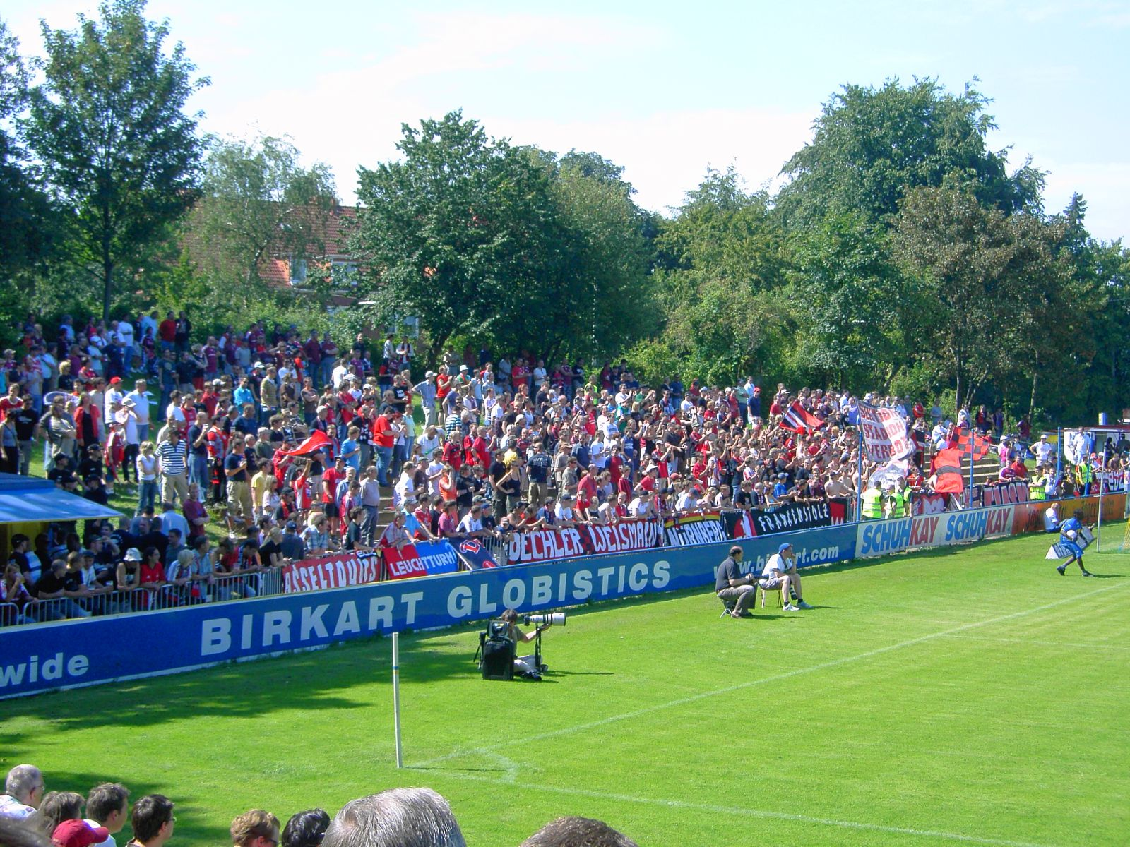 Westernbridge of the Stadium Hoheluft in Hamburg. Homeground of the German soccer club SC Victoria Hamburg. Filled with fans of the en:1. FC Nürnberg.